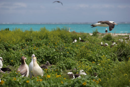 Phoebastria albatrus, Phoebastria immutabilis Mrs. Laura Bush toured Midway Atoll and viewed many albatrosses on the Northwest Hawaiian Islands National Monument, Thursday March 1, 2007. The short-tailed albatross facing the camera is a long-time resident of the island and standing with two decoy birds. "He's been here about five years," said Mrs. Bush of the lonely bird. "He's 20 years old. They know because he was banded in Japan on the island where he was. Of course, they are hoping to attract some young short-tailed albatross. That's why the decoys are here also, so there will be a mating pair here." President Bush designated the Northwest Hawaiian Islands National Monument on June 15, 2006, and is the single largest conservation area in U.S. history and the largest protected marine area in the world.